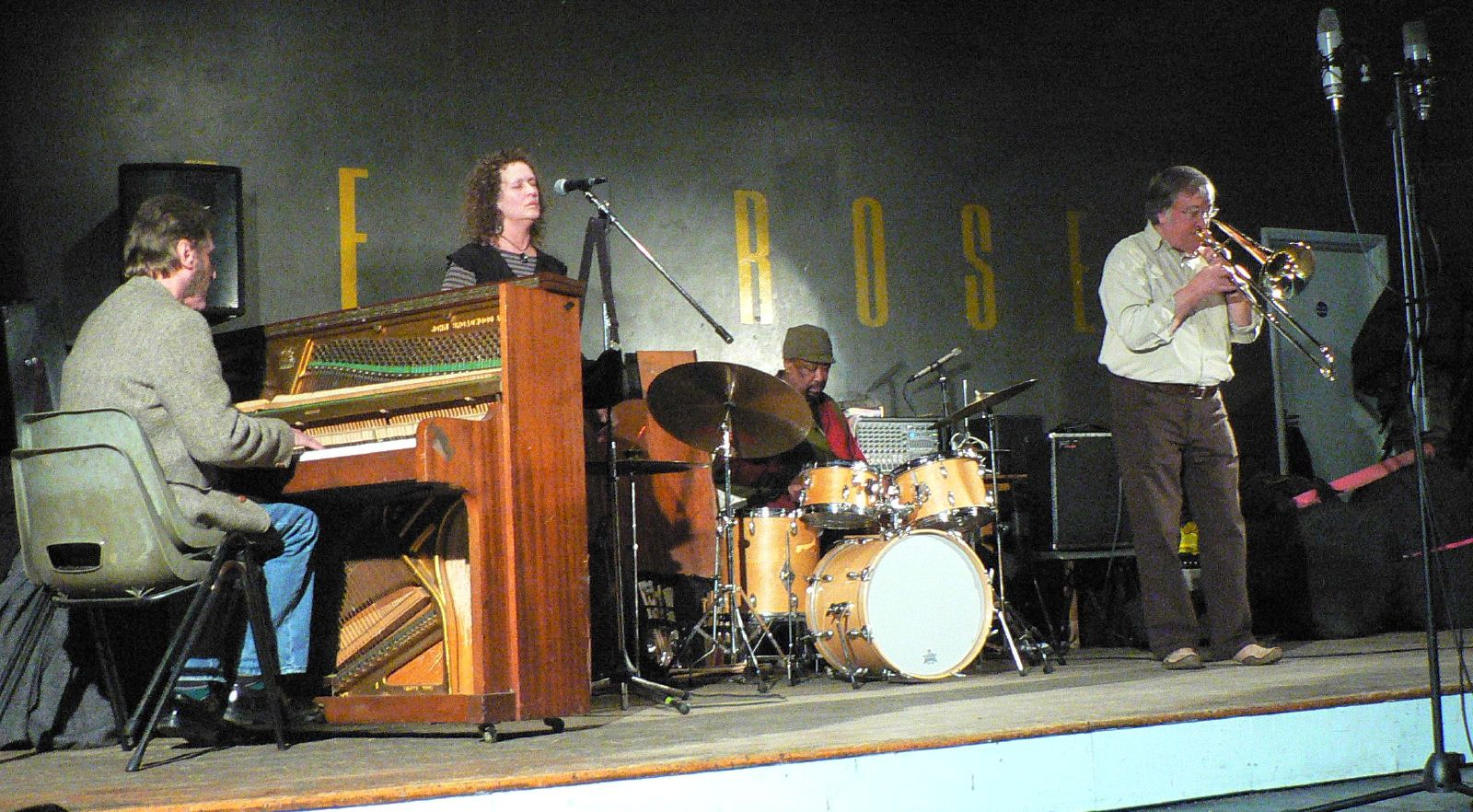 Keith & Julie Tippetts with Louis Moholo & trombone player (Paul Rutherford Memorial 2007)